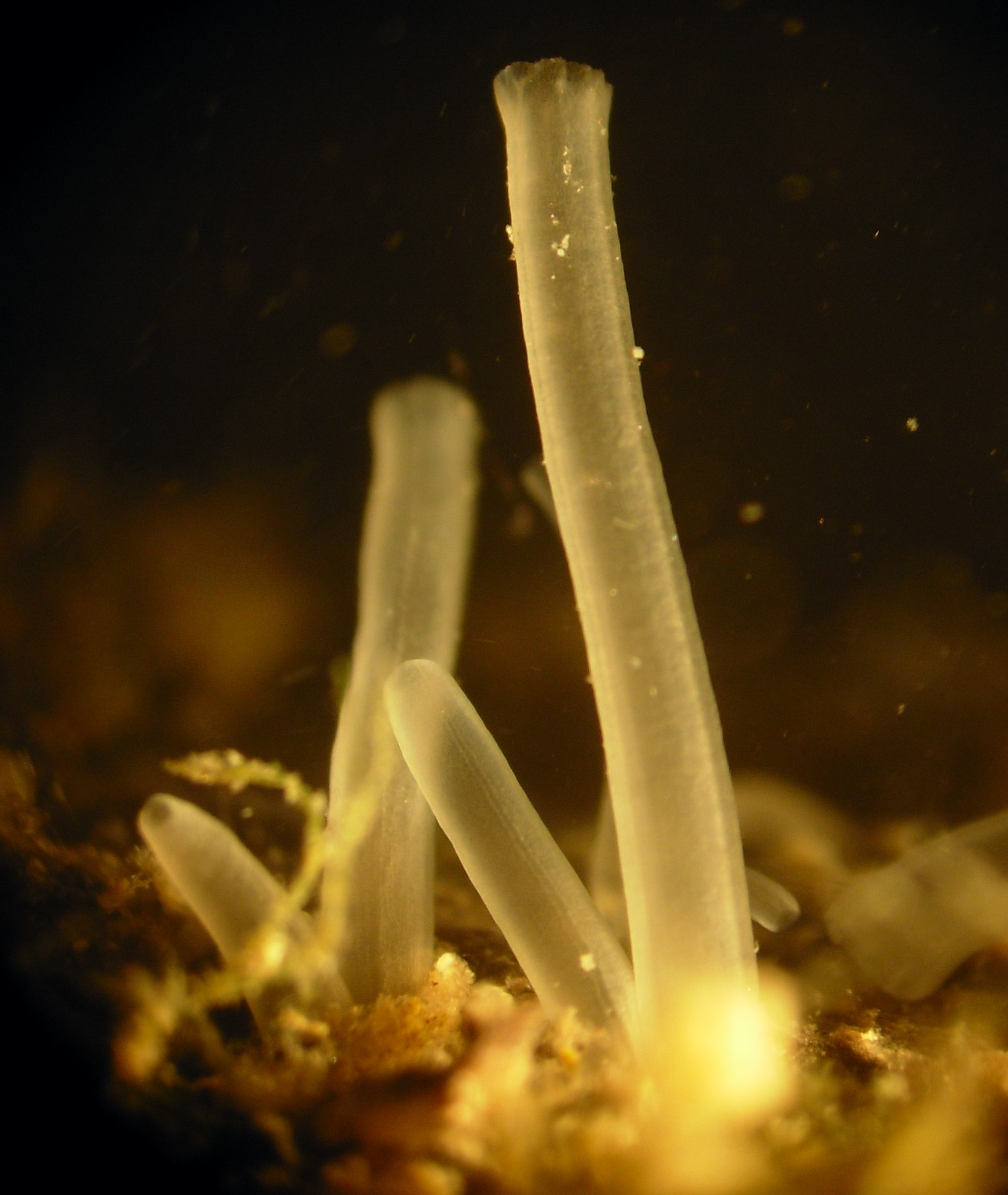 Lyrodus pedicellatus, inhalant siphon, open, exhalant siphon, partially closed